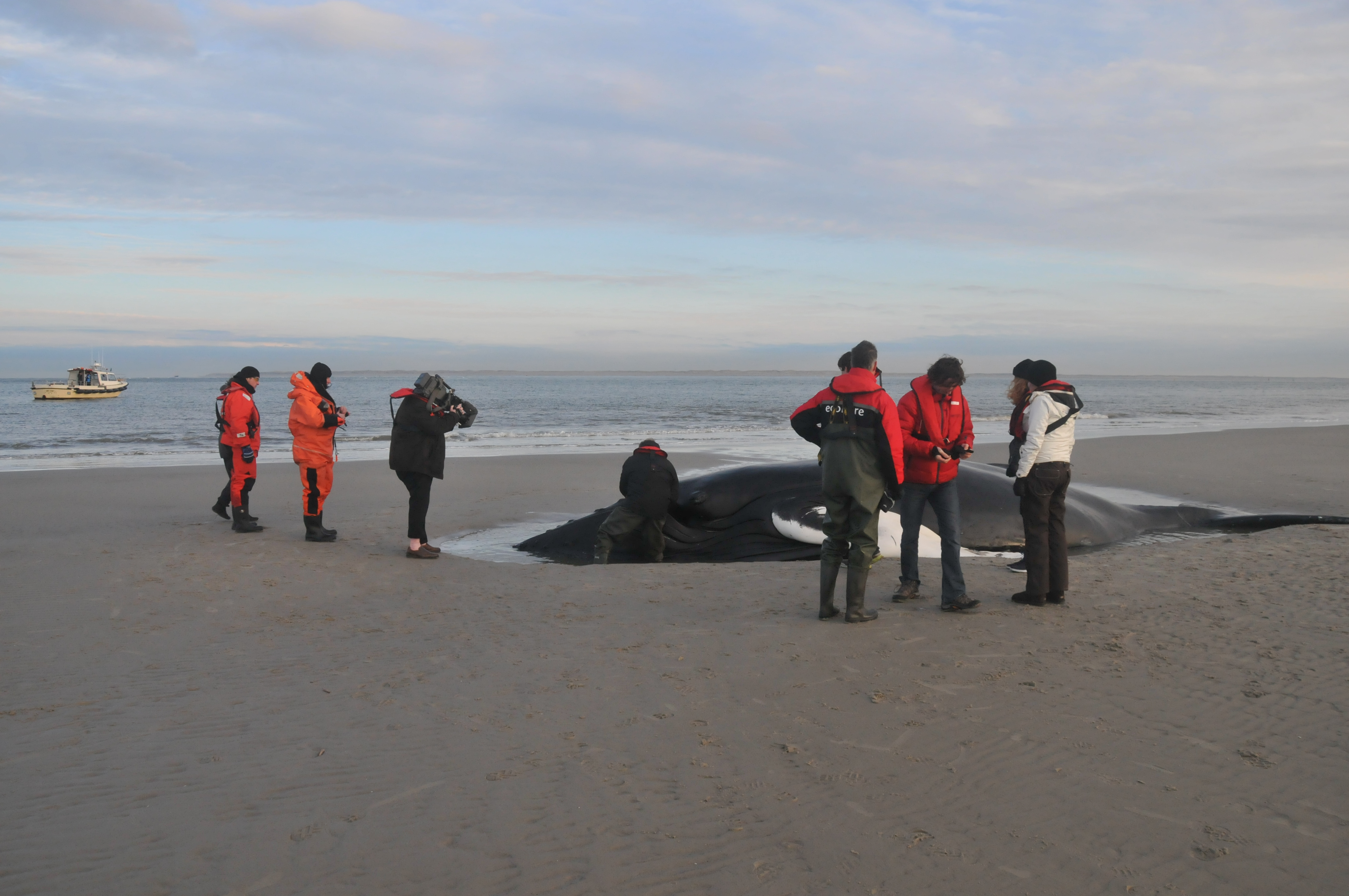 living stranded humpback whale on Razende Bol